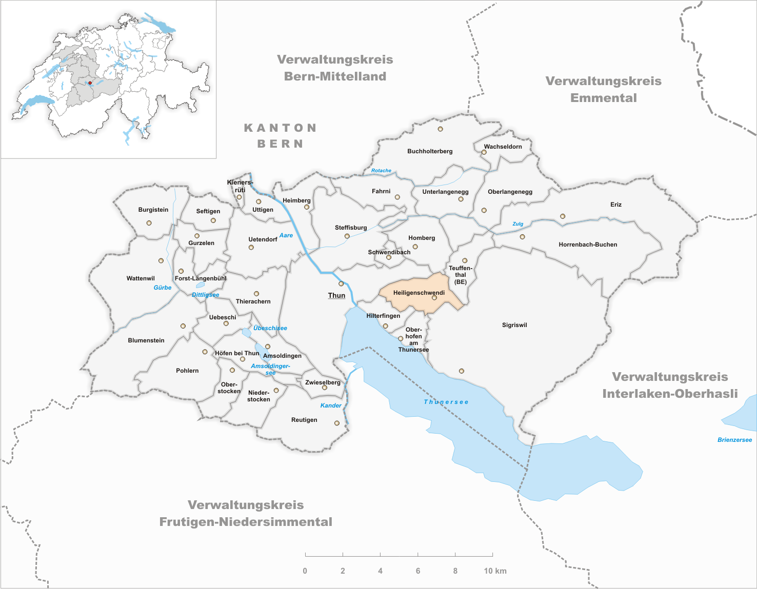 Municipality Heiligenschwendi